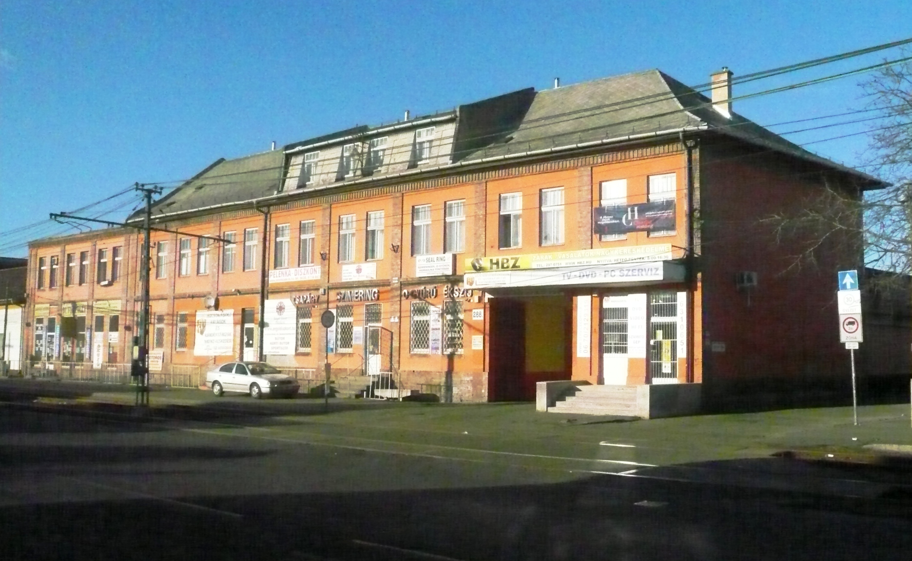 Former textile factory in Budapest